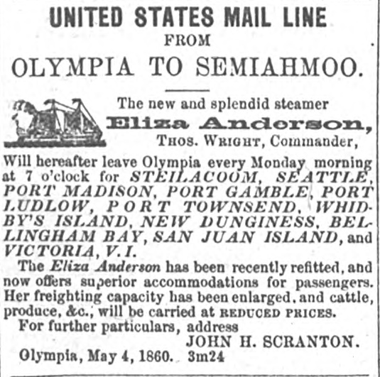 Advertisement for steamer Eliza Anderson published in Pioneer Democrat, Olympia, Washington Terr.